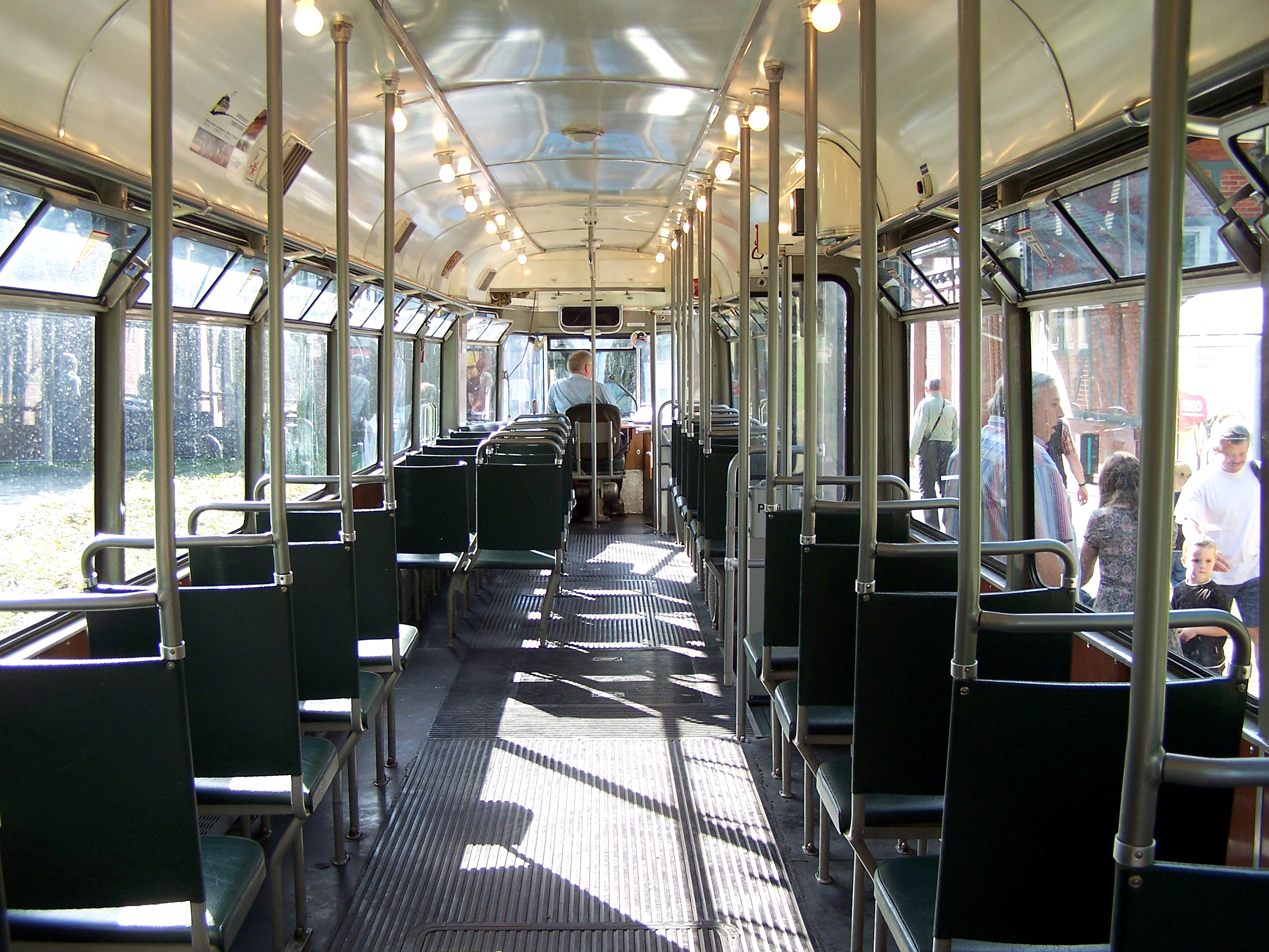 Tramway at Frankfurt am Main: Inside view of VGF type L railcar 124 (ex224) in Frankfurt am Main